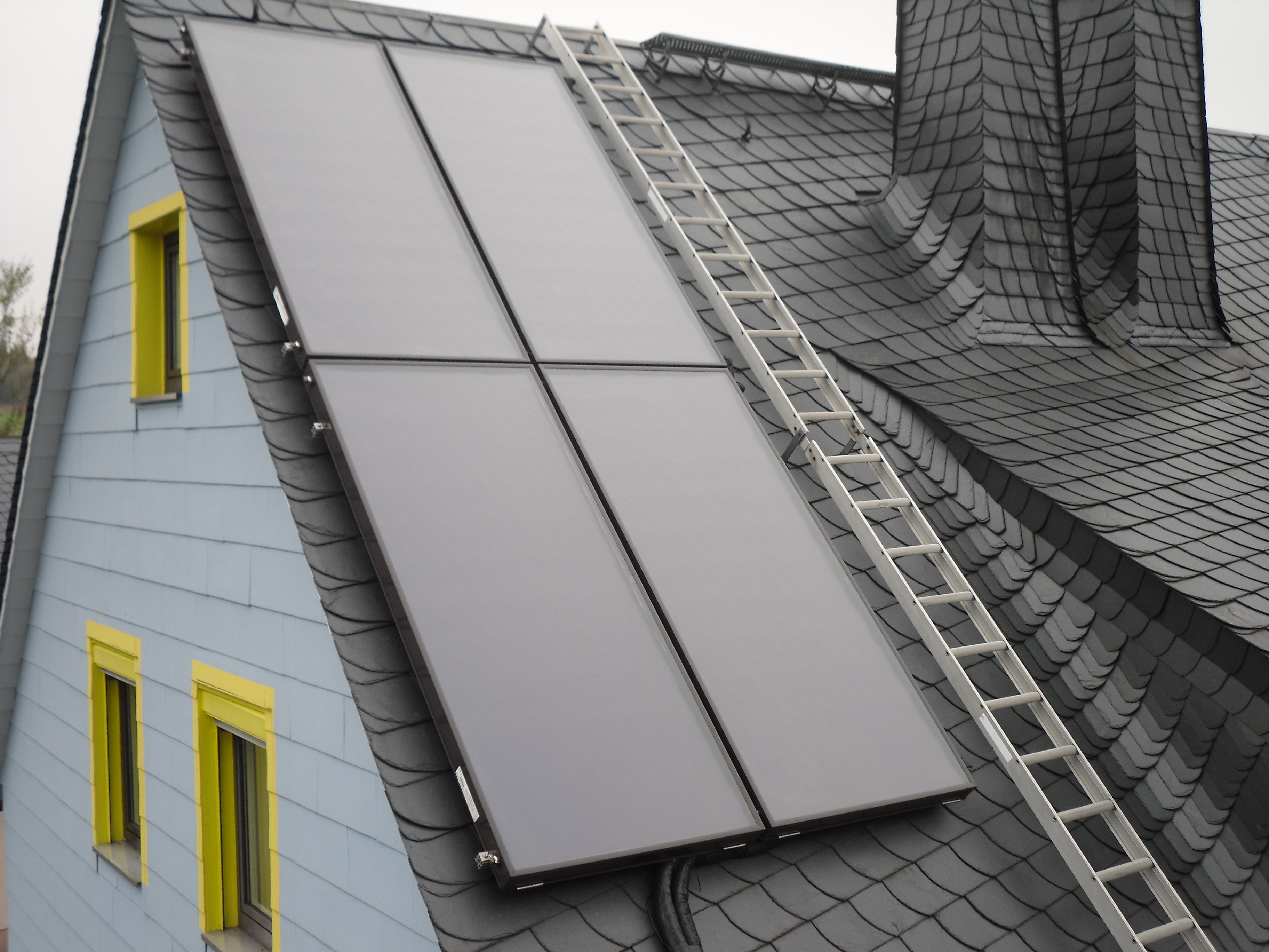 Four Solar collectors to generate heat for a heater